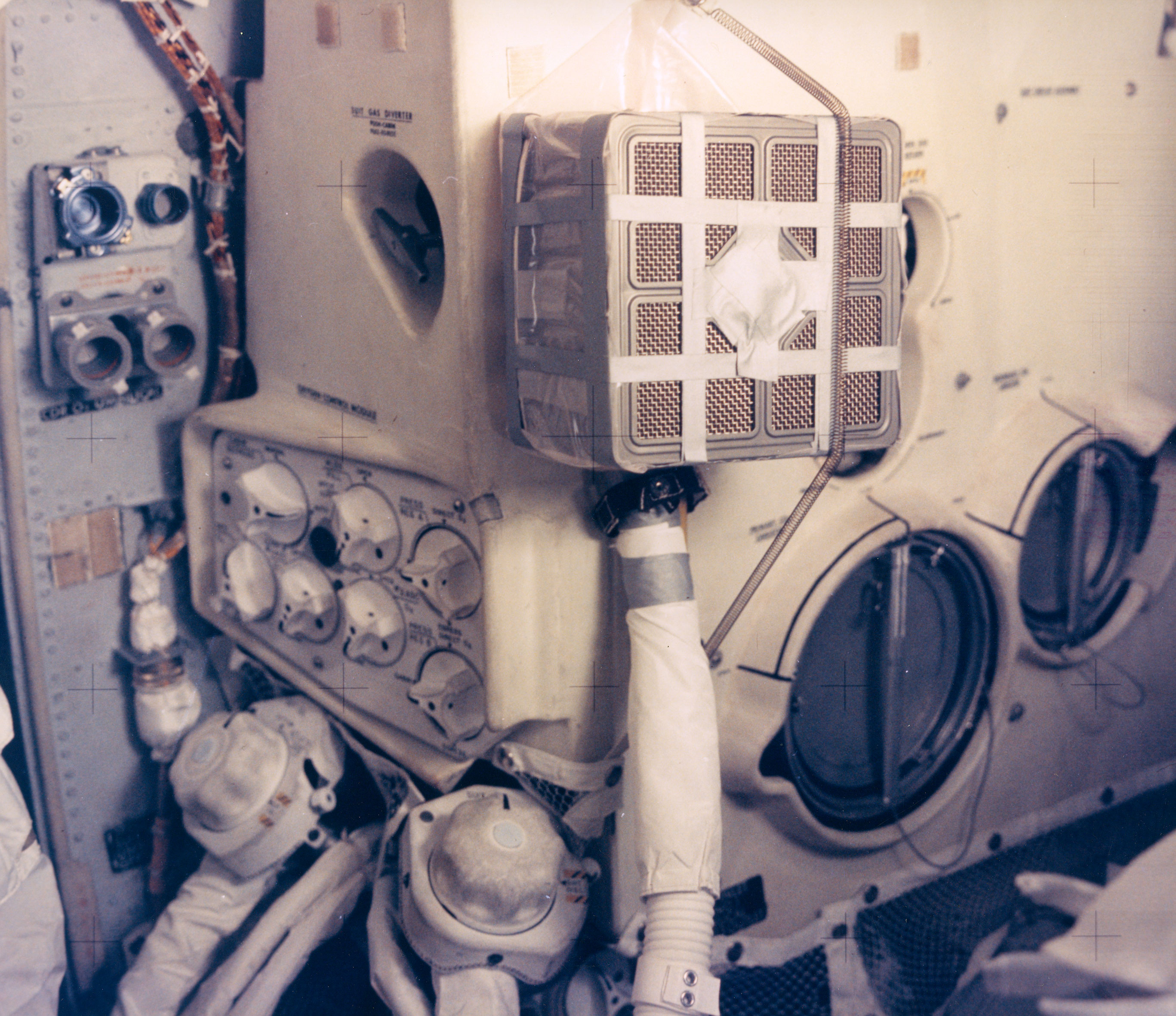 An interior view of the Apollo 13 Lunar Module and the "mailbox." The "mailbox" was a jury-rigged arrangement which the Apollo 13 astronauts built to use the Command Module lithium hydroxide canisters to purge carbon dioxide from the Lunar Module. Lithium hydroxide is used to scrub CO2 from the spacecraft atmosphere. Since there was a limited amount of lithium hydroxide in the Lunar Module, this arrangement was rigged up using the canisters from the Command Module. The "mailbox" was designed and tested on the ground at the Manned Spacecraft Center before it was suggested to the problem-plagued Apollo 13 crewmen. Because of the explosion of an oxygen tank in the Service Module, the three astronauts had to use the Lunar Module as a "lifeboat."